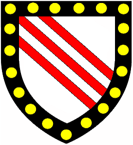 Arms of de Vautort family, feudal barons of Trematon, Cornwall, and feudal barons of Harberton, Devon: Argent, three bends gules a bordure sable bezantee (per Pole, Sir William (d.1635), Collections Towards a Description of the County of Devon, Sir John-William de la Pole (ed.), London, 1791, p.505)